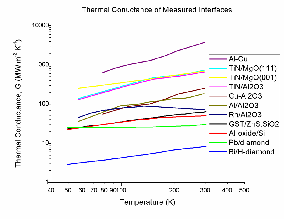 Interfacial Thermal Conductance of various solid interfaes